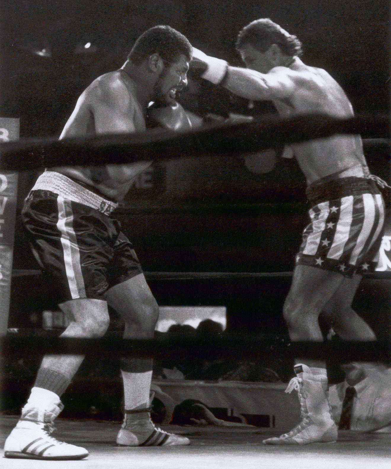 Leon Spinks boxer in St. Louis 1995